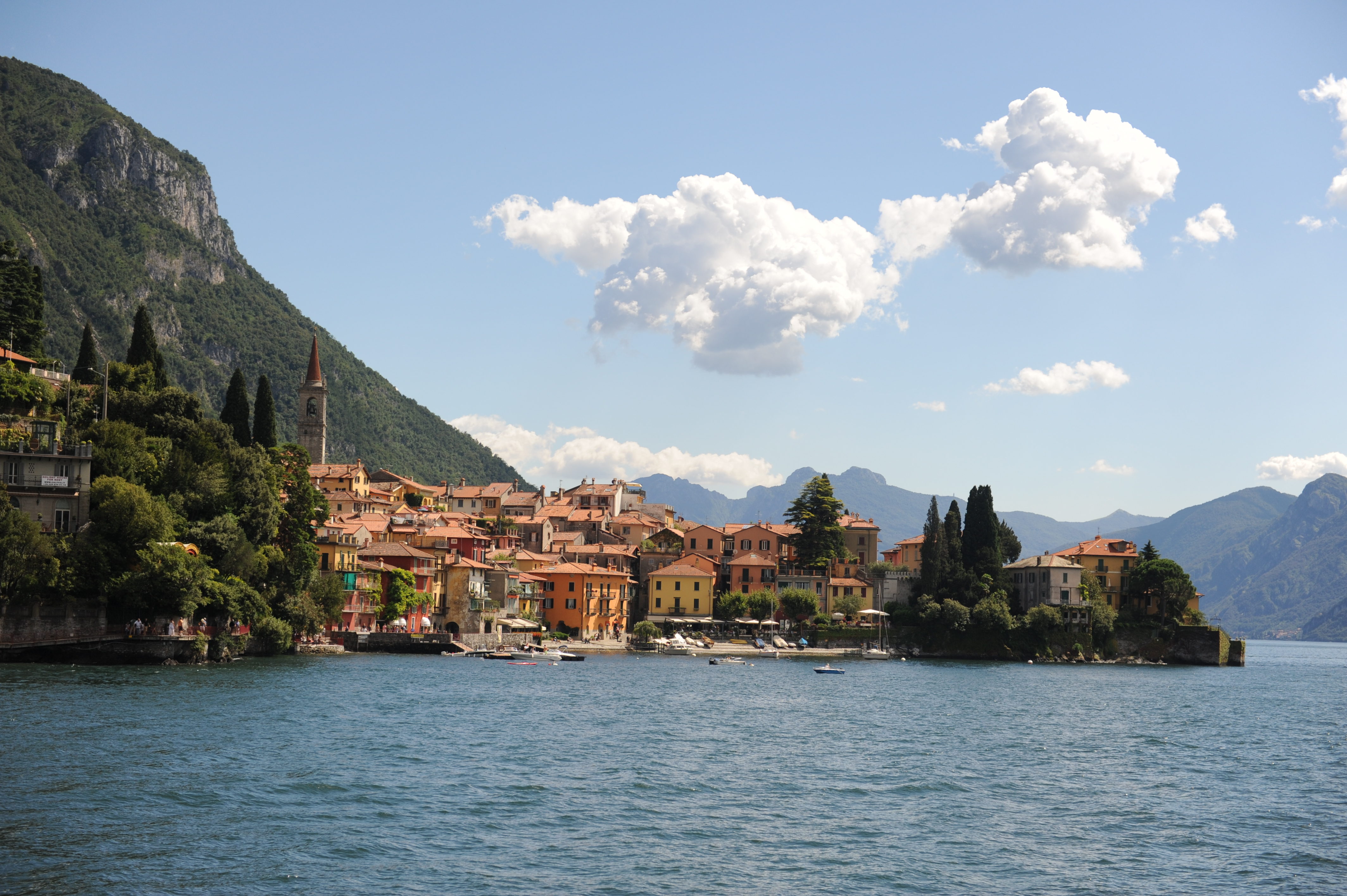 Lake Como